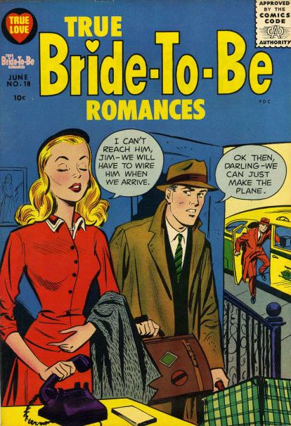 Cover of True Bride-to-Be Romances #18, June 1956